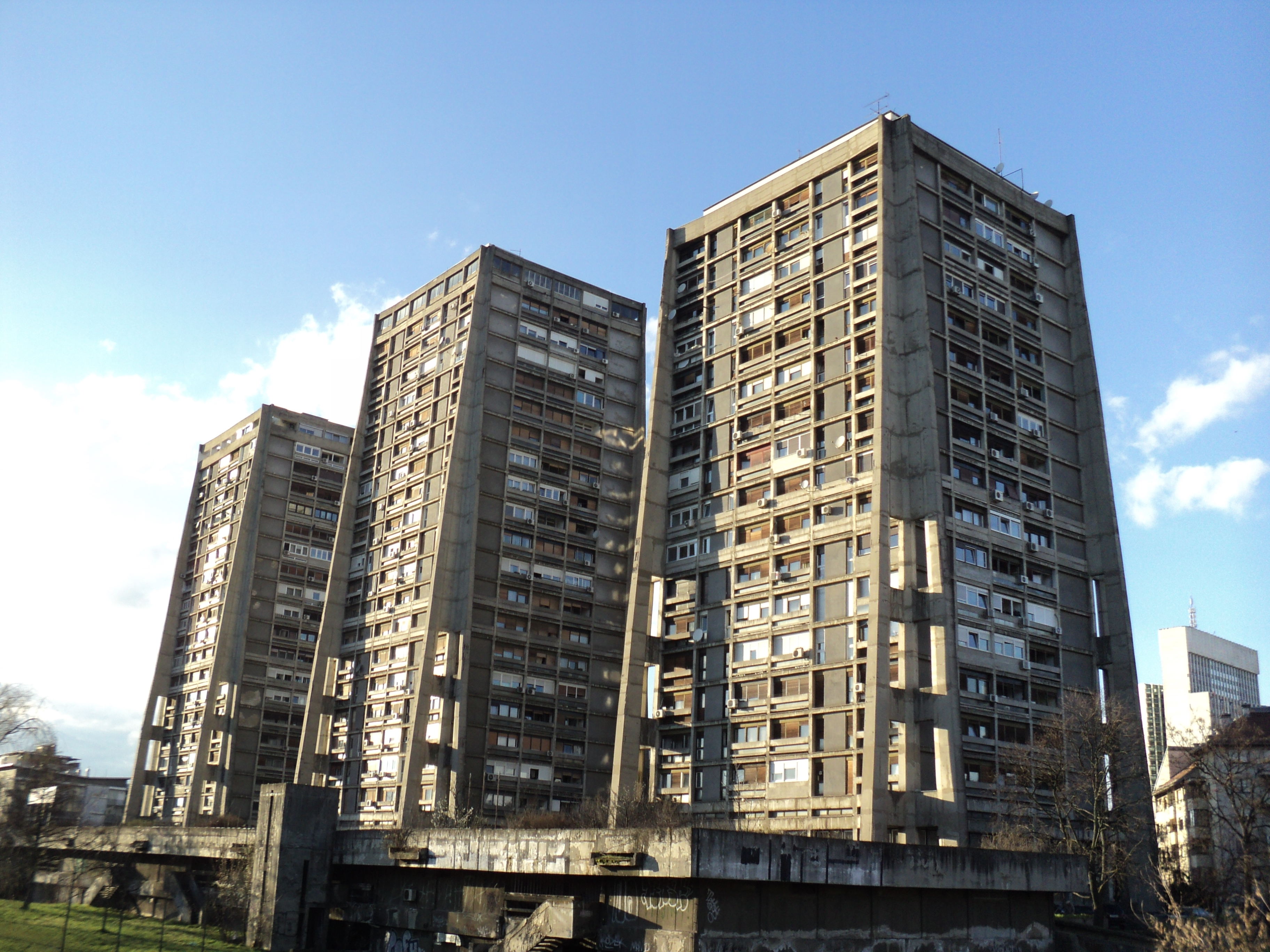 Residental buildings, colloquially known as Richter's rockets, in Zagreb.